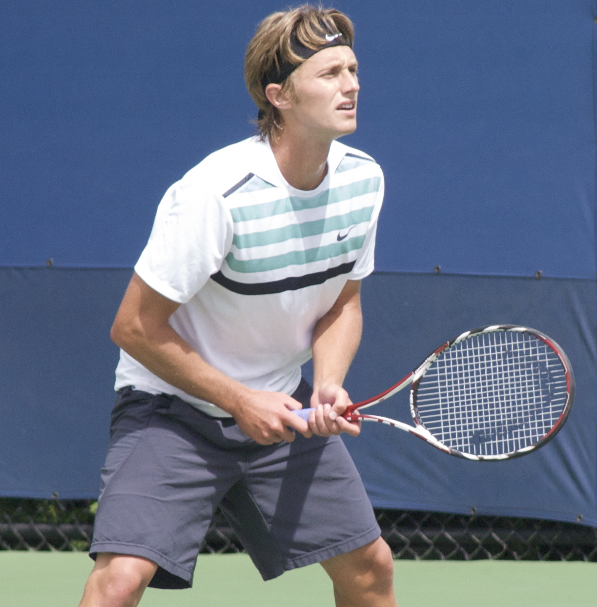 Peter Polansky at the 2009 US Open